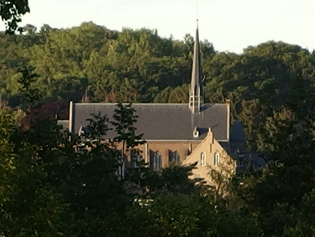 20140524 Huize Overbunde, monastery in Bunde, seen from Meerssenhoven, Maastricht.